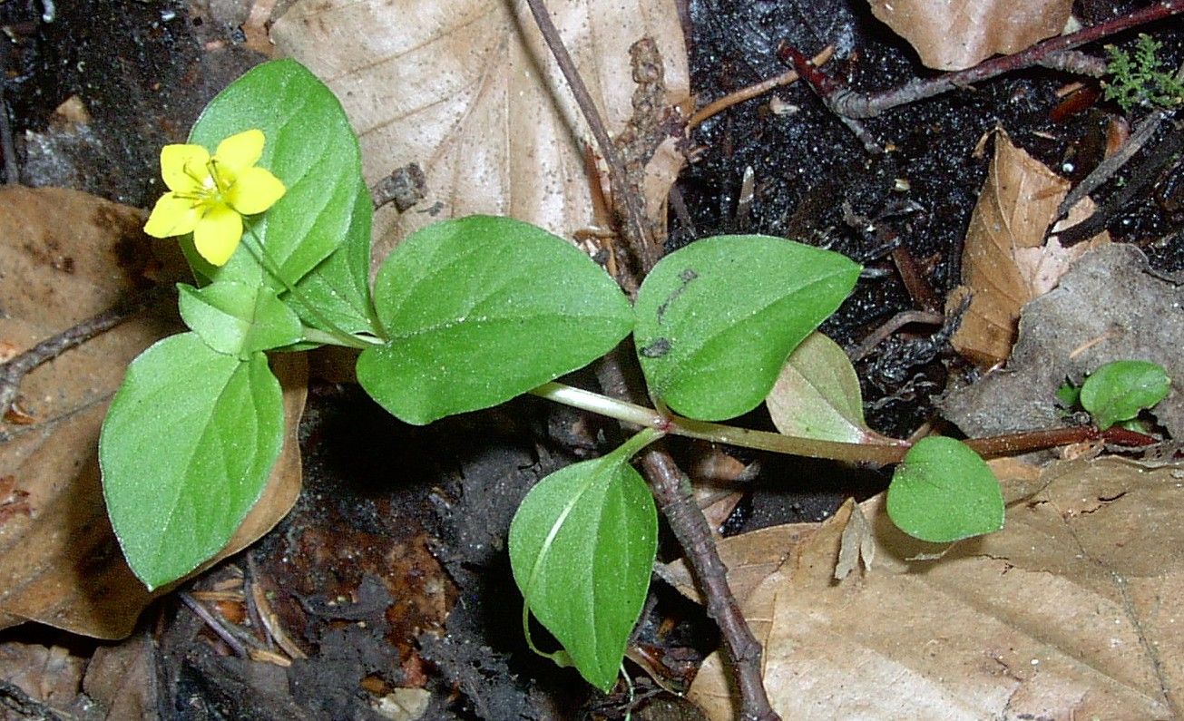 Lysimachia nemorum in alder forest. Slawoborze, NW Poland.